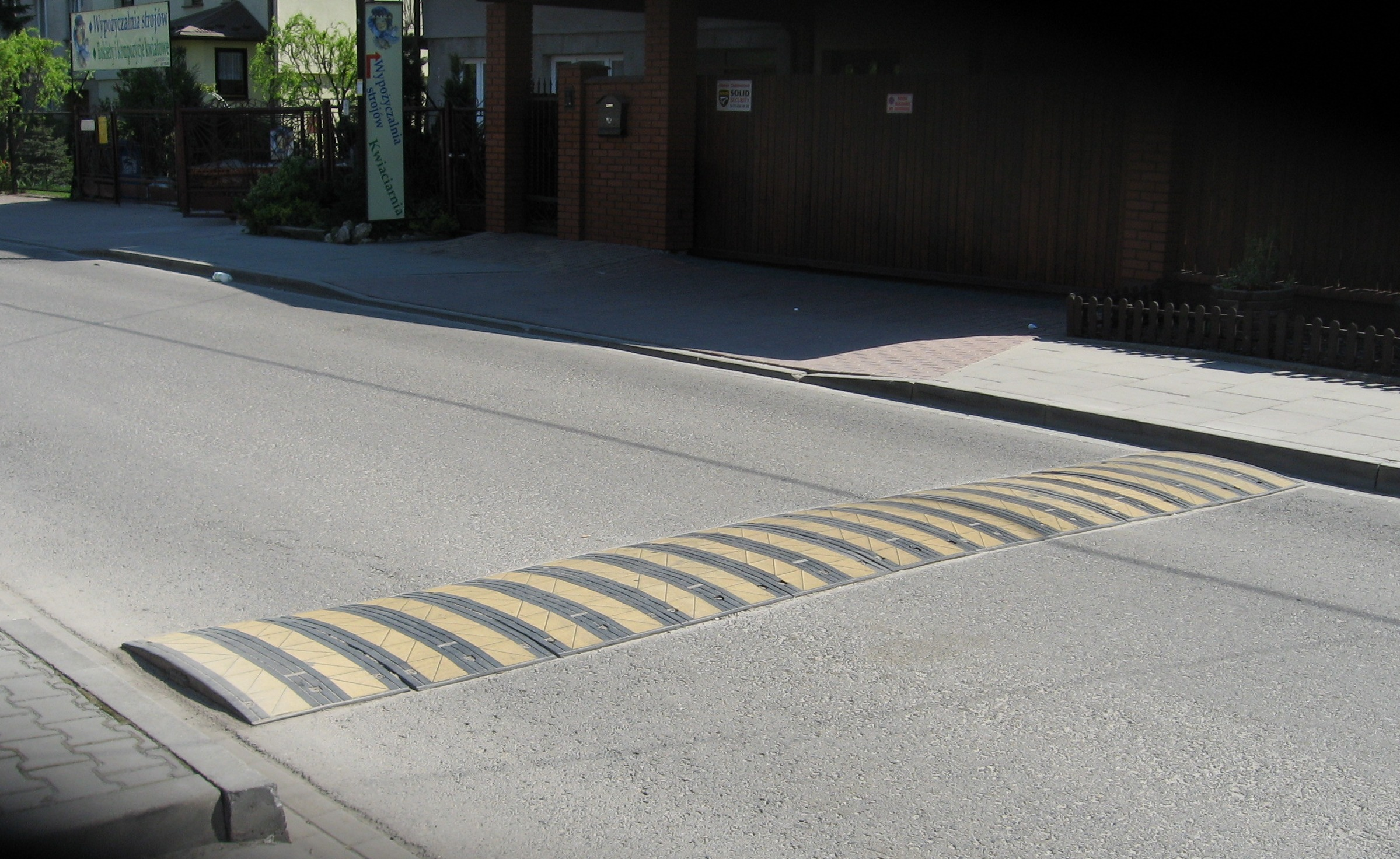 Speed hump